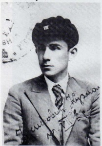 Kuzman Josifoski